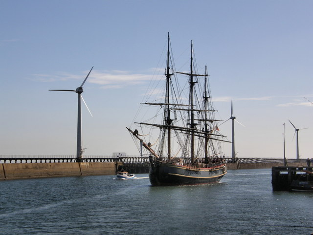 Wind Power Old and New Replica of HMS Bounty, as used in the film Mutiny on the Bounty and other films, entering Blyth Harbour.